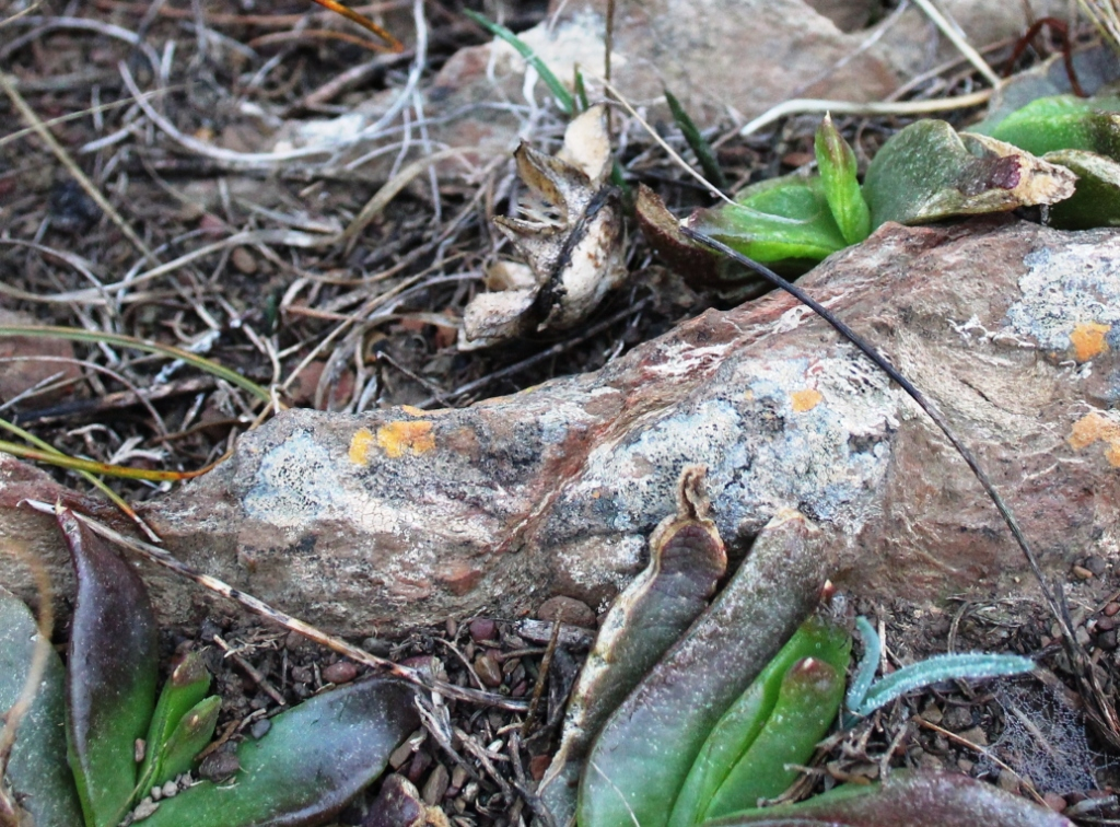 Glottiphyllum depressum seed capsule opened and dropped by plant to become a tumble-fruit